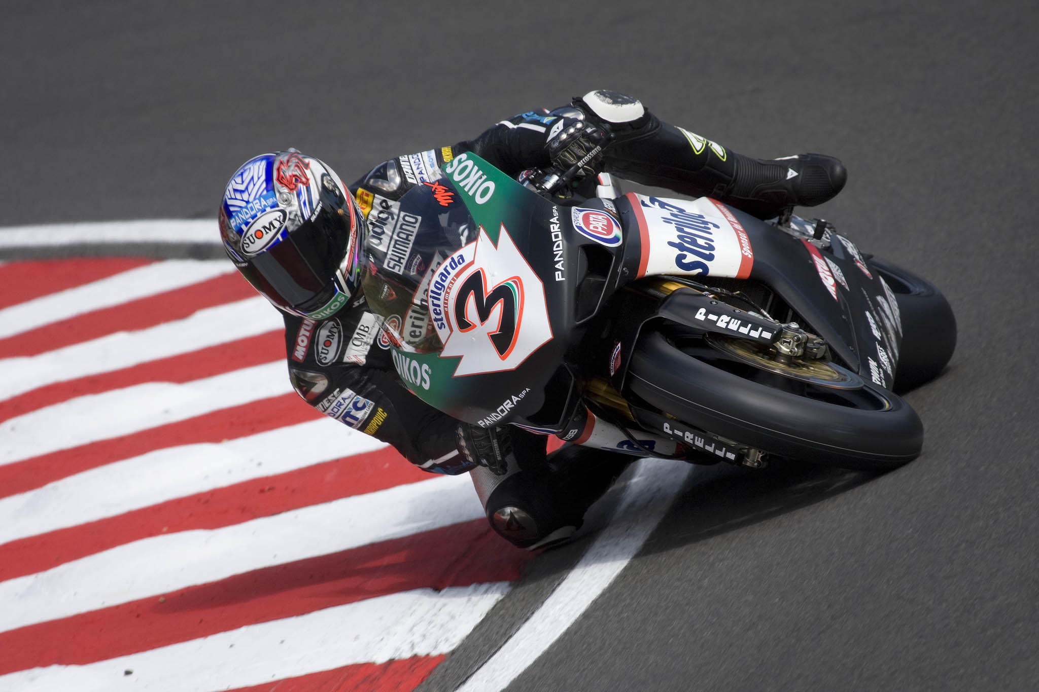 Brands Hatch World Superbike Meeting August 2008 Practice Day. Druids Bend.